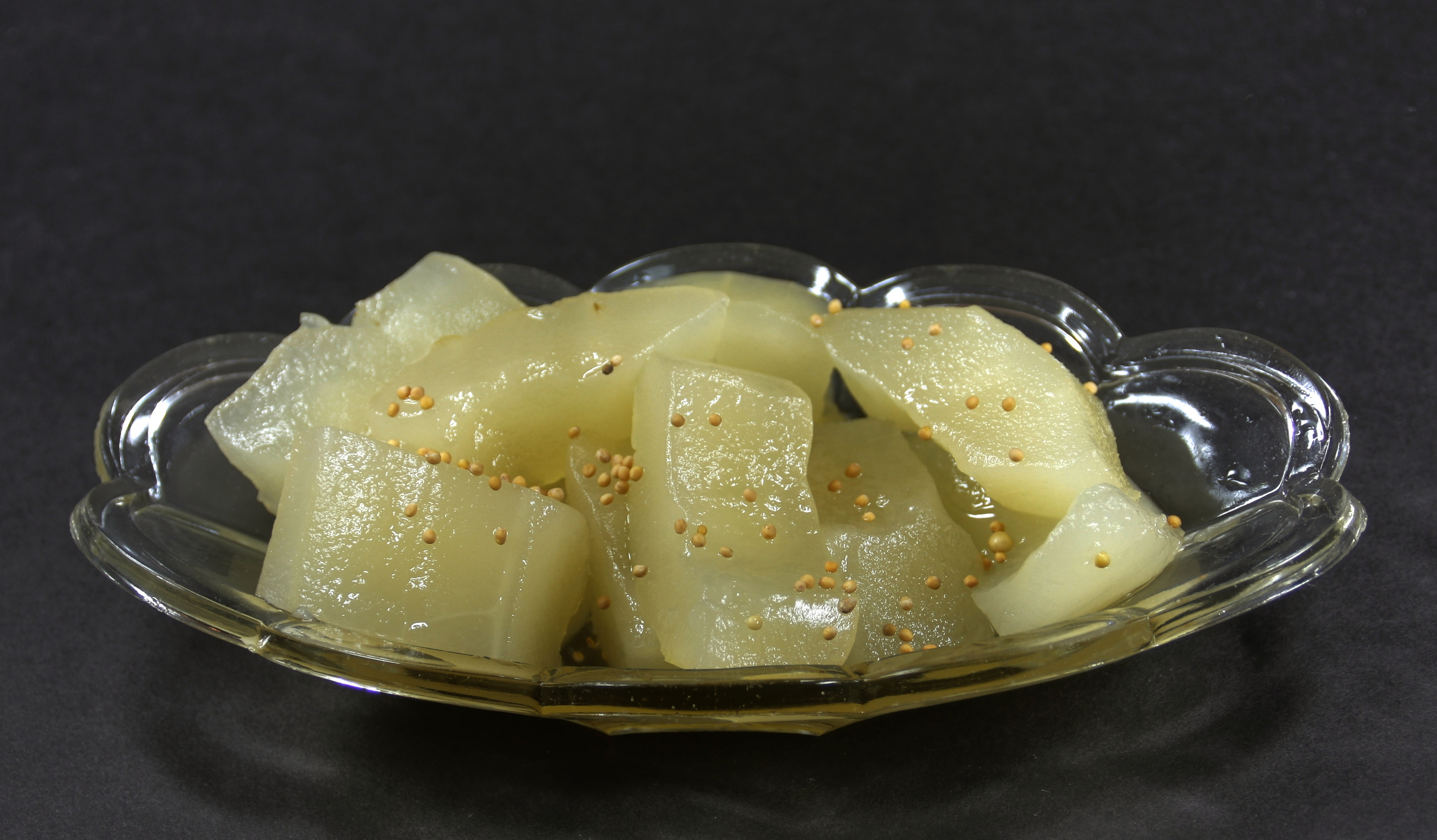 Gherkin in piccalilli/Gherkin pickled with mustard seeds/Pickled cucumbers with mustard seeds